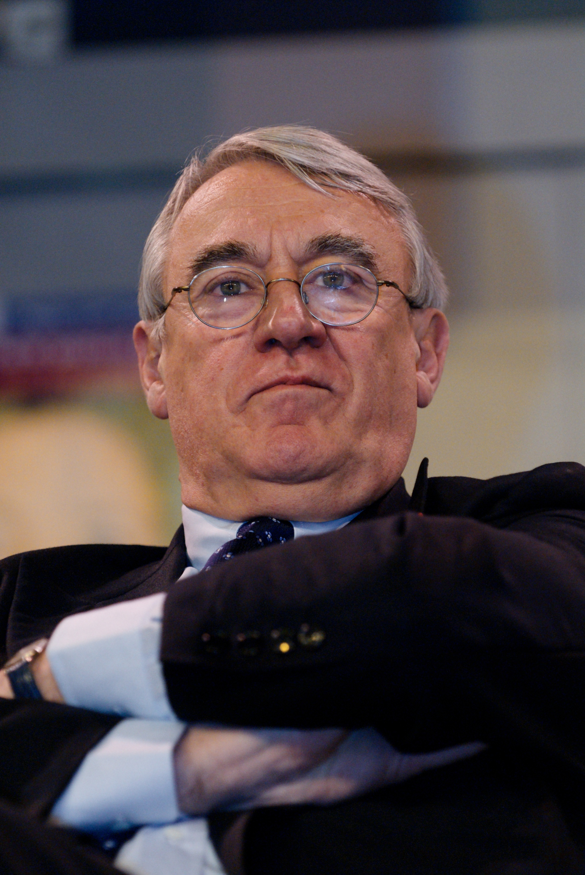 Claude Goasguen. Political rally organized by the UMP at the Japy Gymnasium on February 27, 2008 on the theme “France and Israel's friendship at the service of peace”, during the campaign for the 2008 town elections.